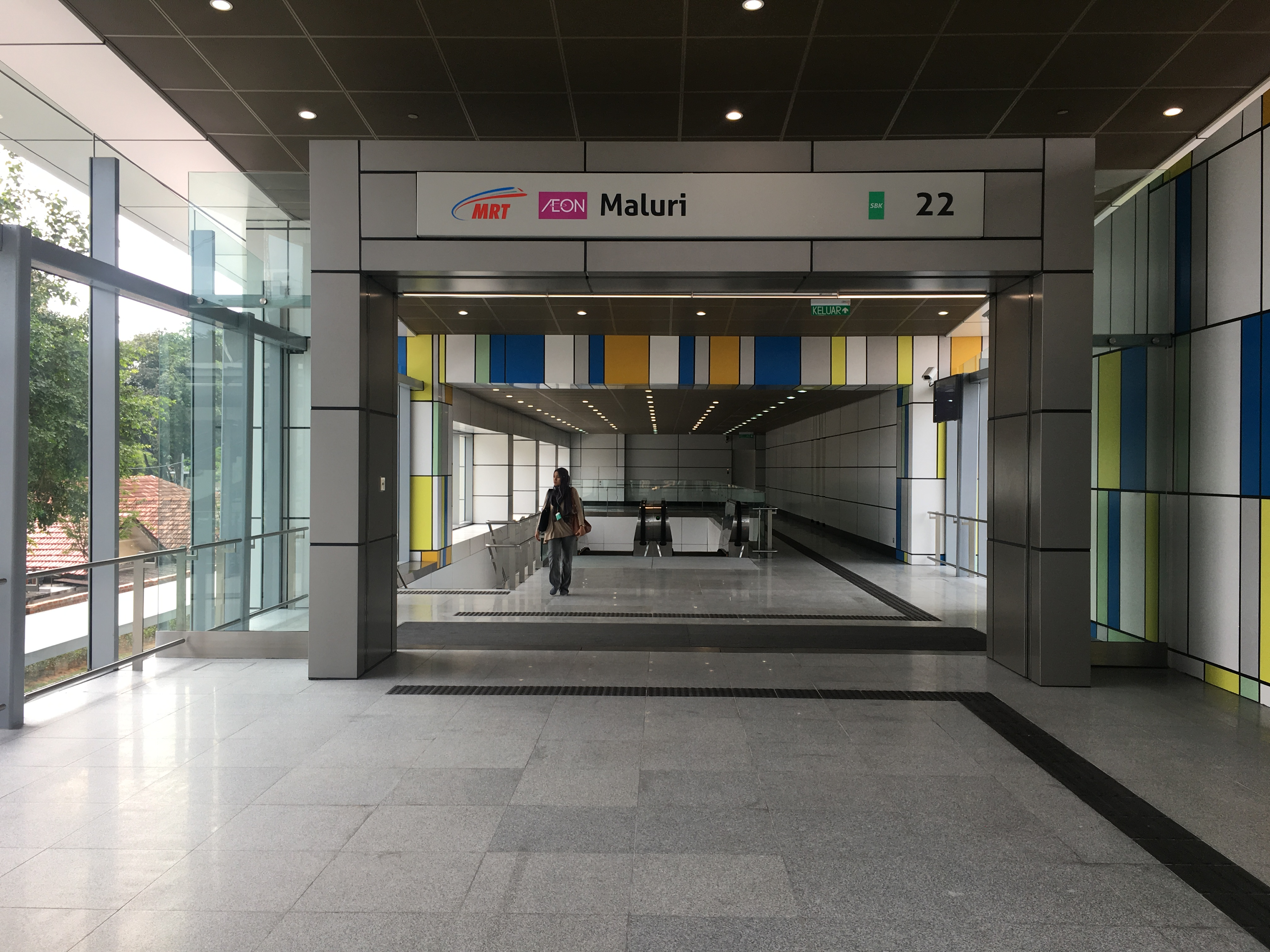 Entrance to the Maluri MRT Station with escalators straight down to the paid area of the concourse level.